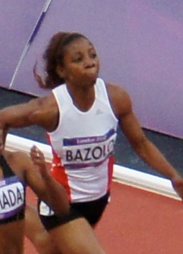 Lorène Bazolo competing at the 2012 Summer Olympics